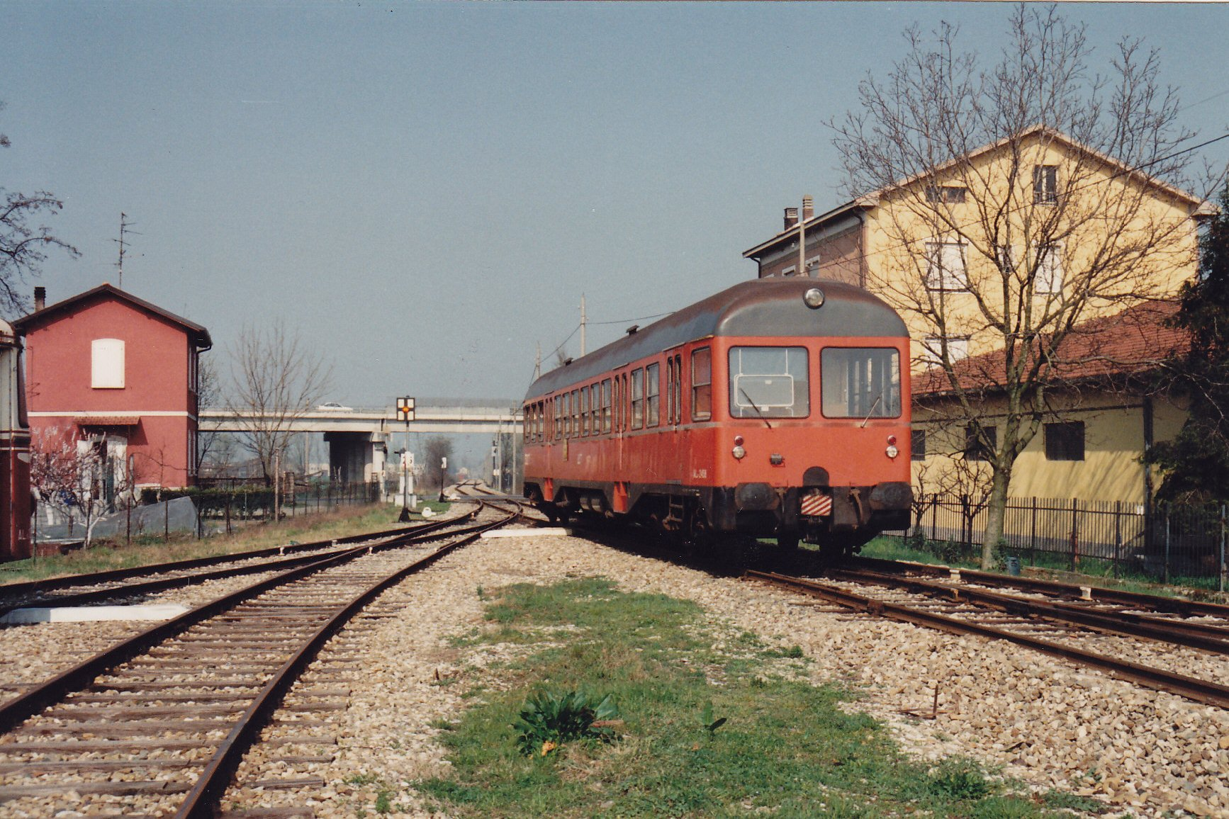 MaK Diesel railcar ACT in 1988